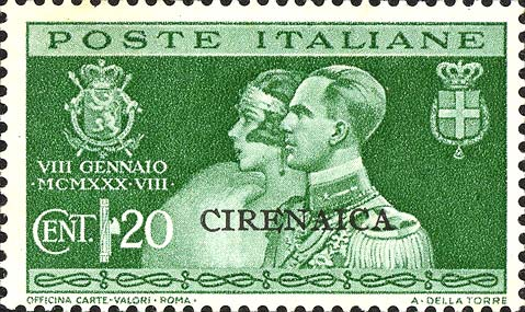 Umberto di Savoia and Maria Josè del Belgio, Cyrenaica 1930.